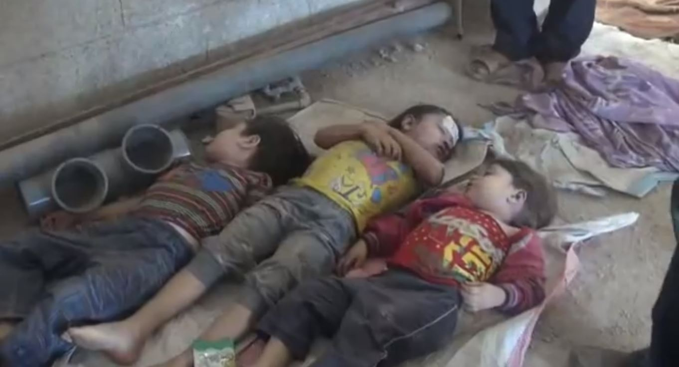 People and children in Ghouta, victims of chemical attack.